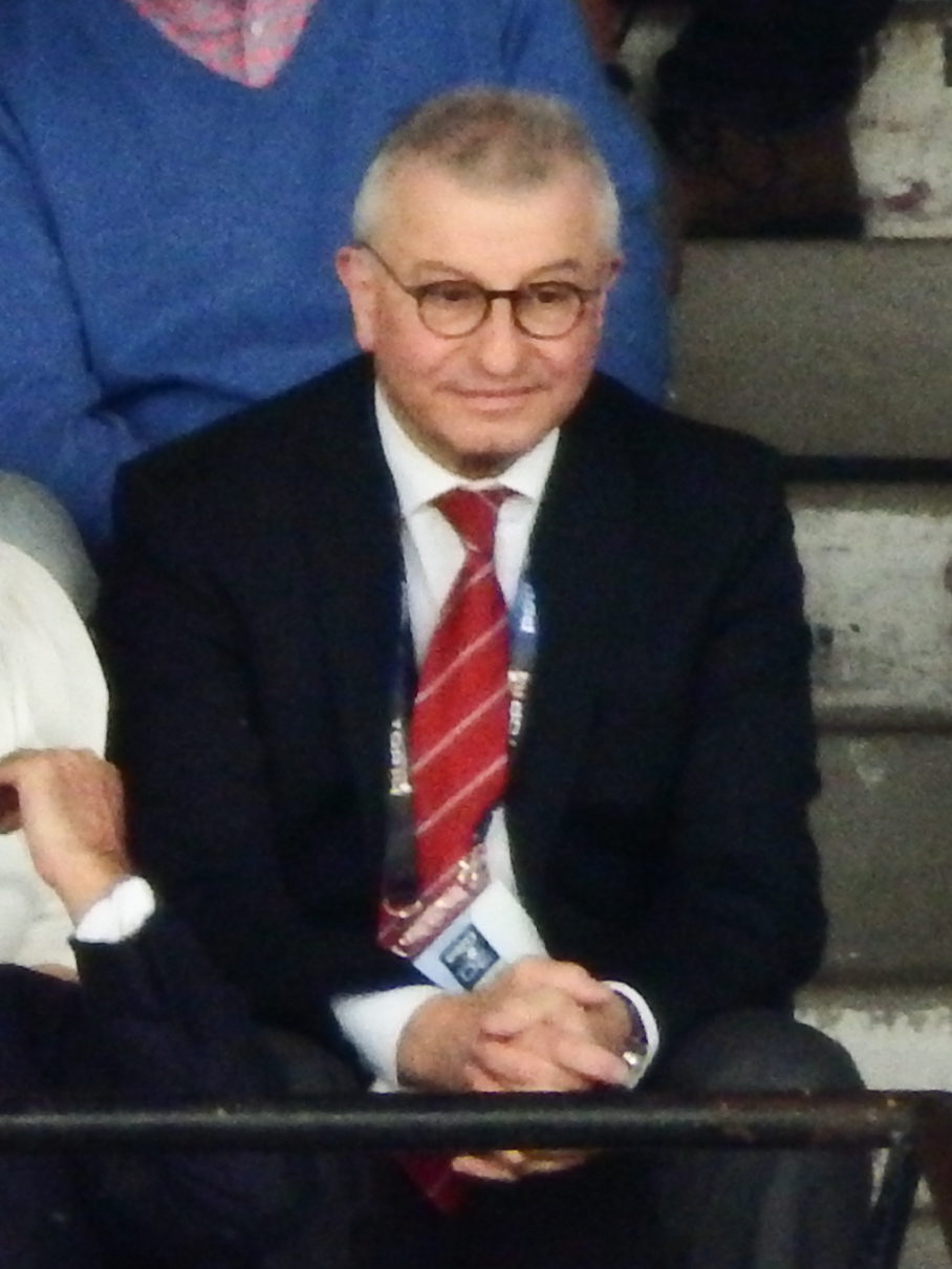 2016–17 Rugby Pro D2 season — 23 October 2016, Stade Maurice Boyau. Match between: US Dax — Biarritz Olympique